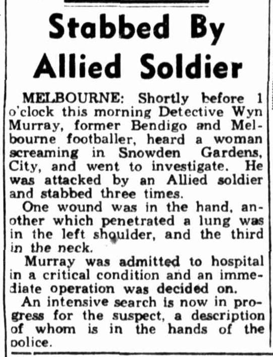 Press Report (The (Brisbane) Telegraph, (Saturday, 26 February 1944), p.2.)